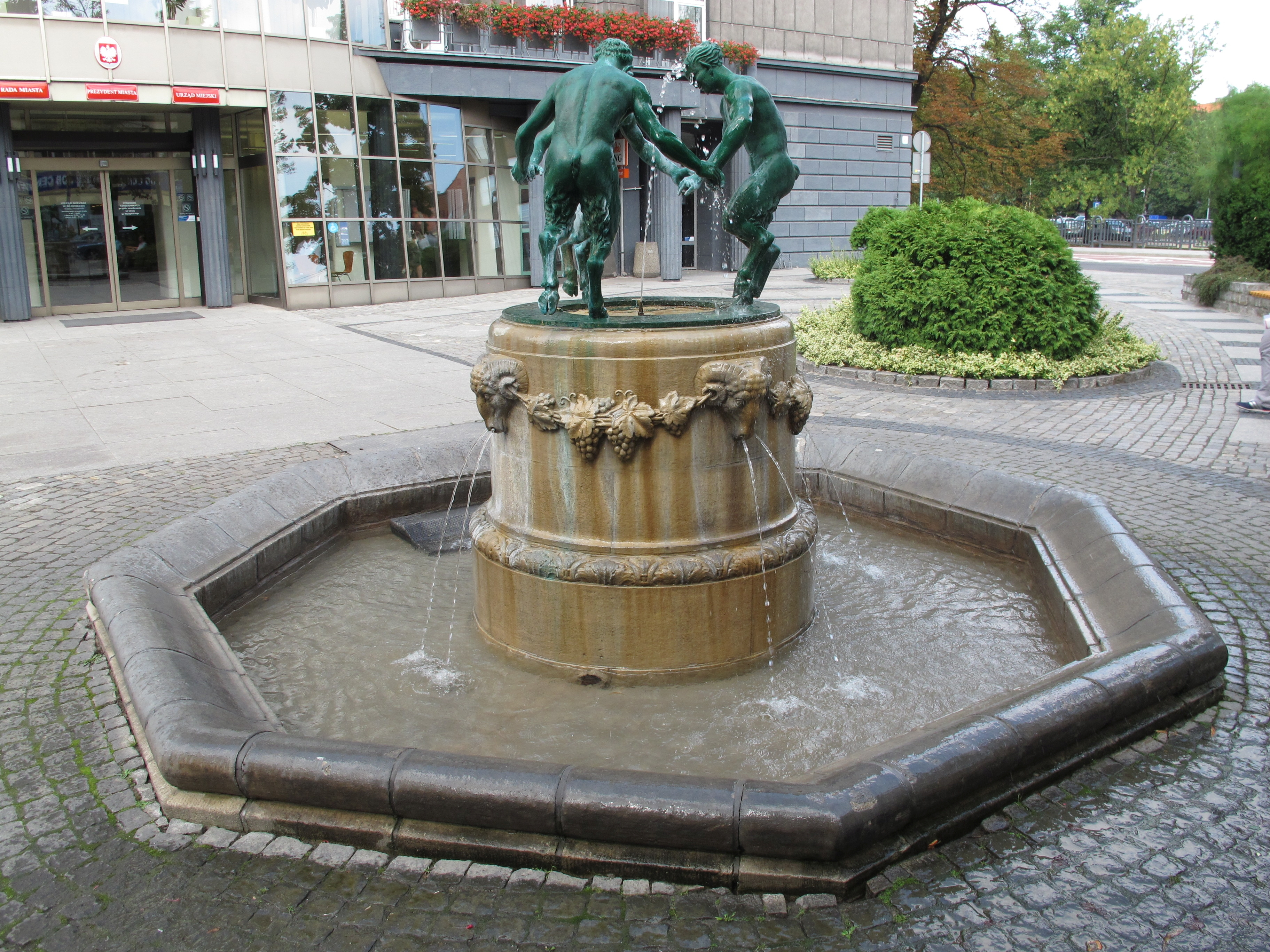 Gliwice - fountain in front of the City Hall